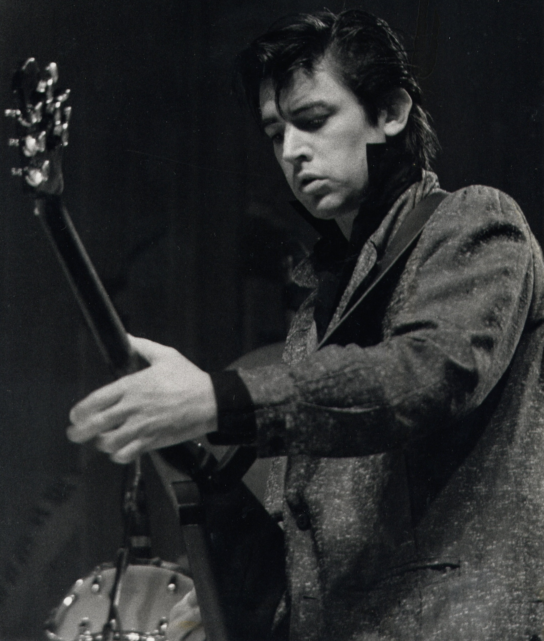 Chris Spedding playing Gibson Flying V, Music Hall, Toronto, May 18, 1979 Jean-Luc Ourlin